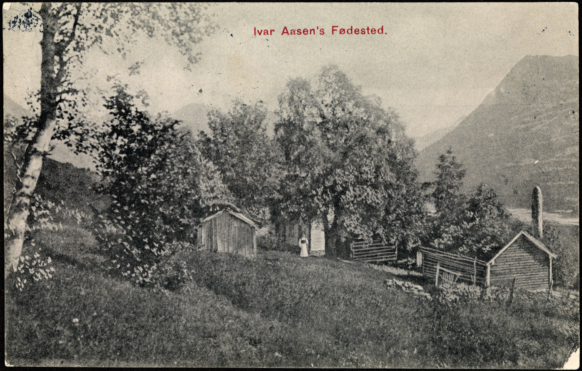 Tittel / Title: Ivar Aasen's Fødested Motiv / Motif: Postkort. Ivar Aasens fødested. Dato / Date: ca 1908 Fotograf / Photographer: ukjent / unknown Utgiver / Publisher: Ørstens Bokhandel Sted / Place: Møre og Romsdal, Ørsta Eier / Owner Institution: Nasjonalbiblioteket / National Library of Norway Lenke / Link: Bildesignatur / Image Number: blds_04553